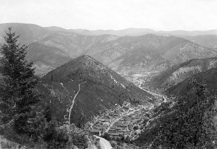 Wardner & Kellog, Idaho